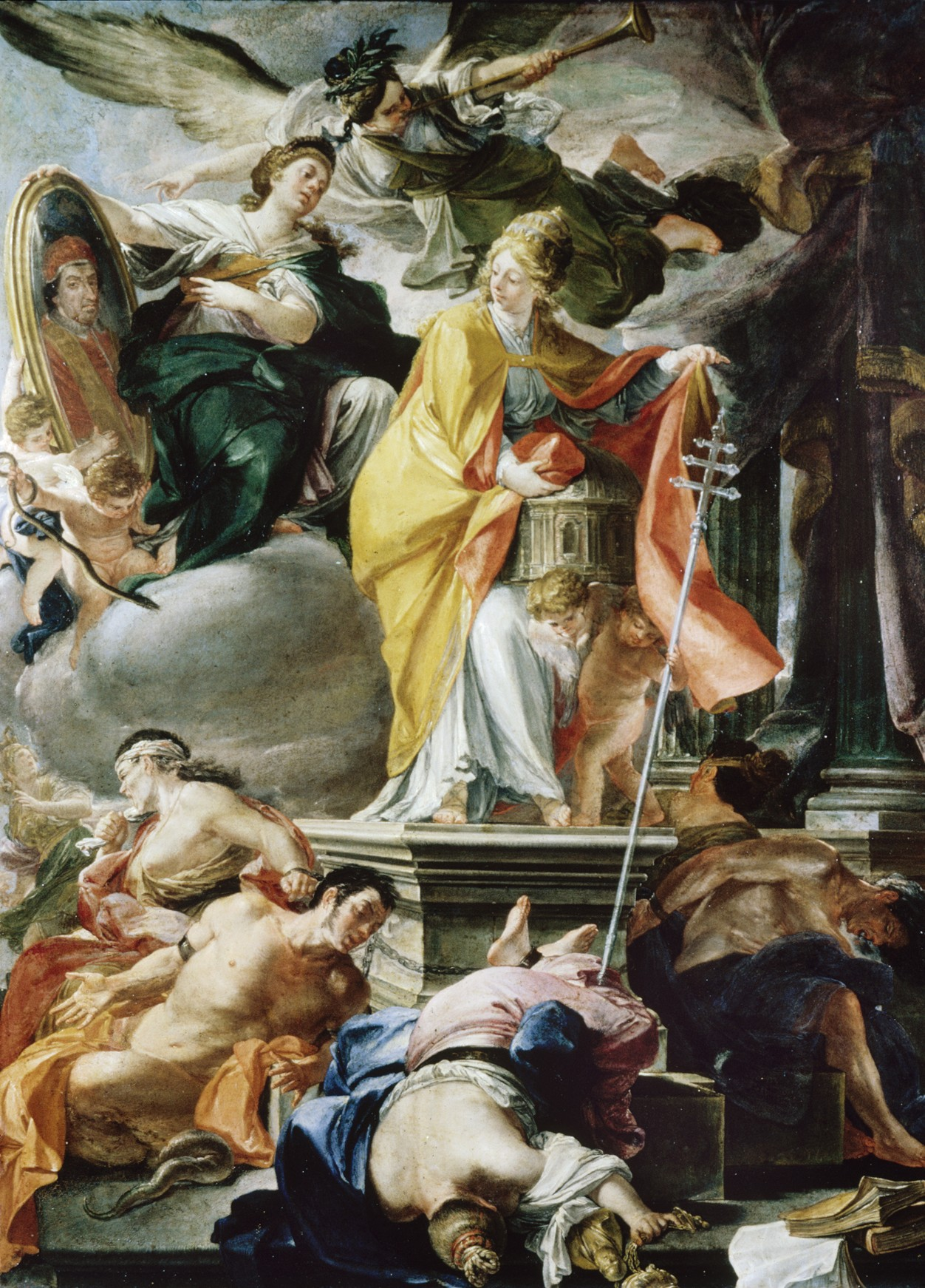 In this allegory, various symbolic motifs are brought together to express Clement XI's papacy (r. 1700-1721) as an abstract concept. The standing woman at center wearing the papal tiara is holding her cape in a protective manner over a little temple supported by angels. She may by an allegory of Religion protecting the Roman Church. To the base, on which she stands like a column, are chained different agonized figures symbolizing vices, an allusion to Protestants and Muslims. Above, Fame blows her horn while pointing to a portrait of the pontiff. The allegory as a whole is a portrait or a mirror of the pope and his virtues.